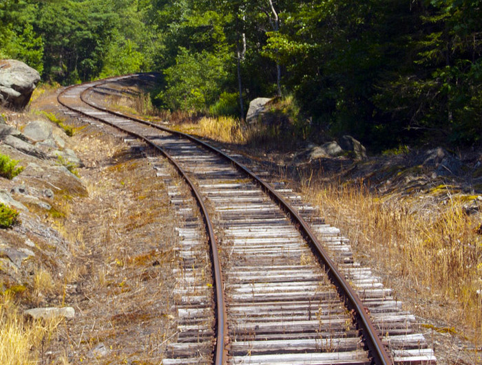 A railroad "S" curve (aka "reverse" curve) adjacent to the Fowler Hill/E Waldo Rd grade crossing located in Waldo, Maine, about five miles inland from Belfast, on the 33-mile grade of the Belfast and Moosehead Lake Railroad running the length of Waldo County, between Belfast and Burnham Junction.